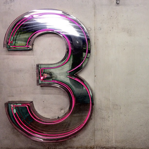 A three number designed on Miami.